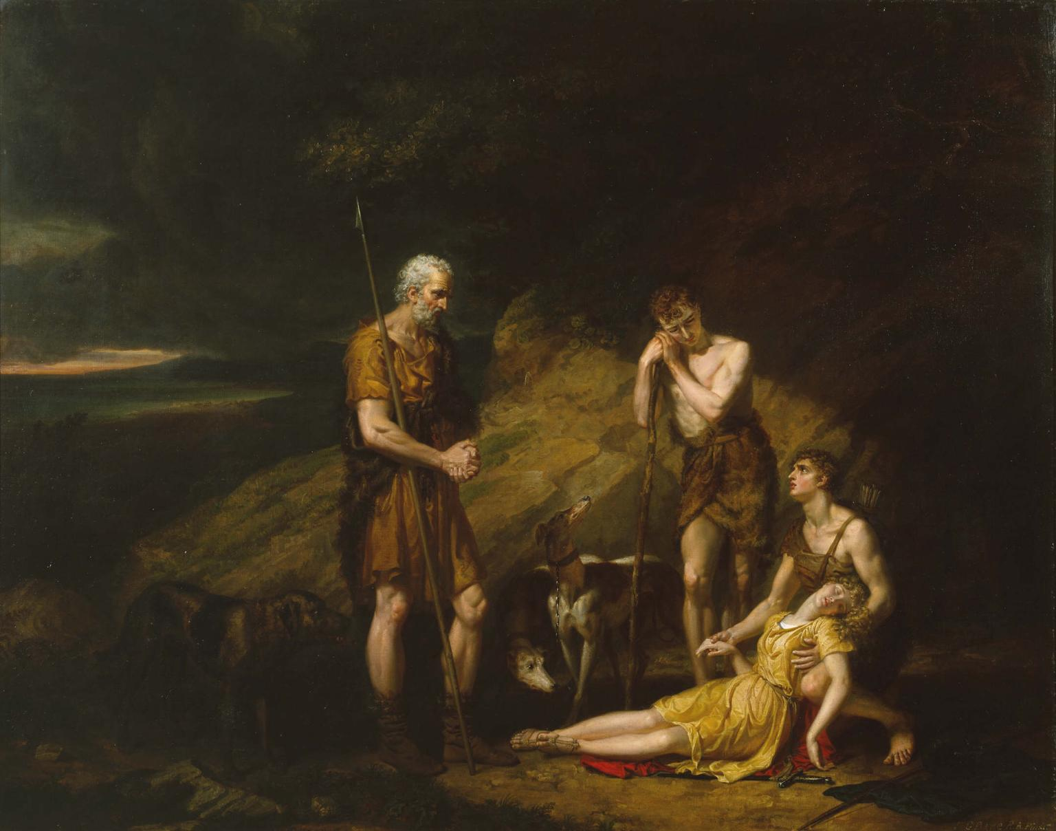 From Cymbeline, Act IV, Scene II, summarized (seemingly dead) here